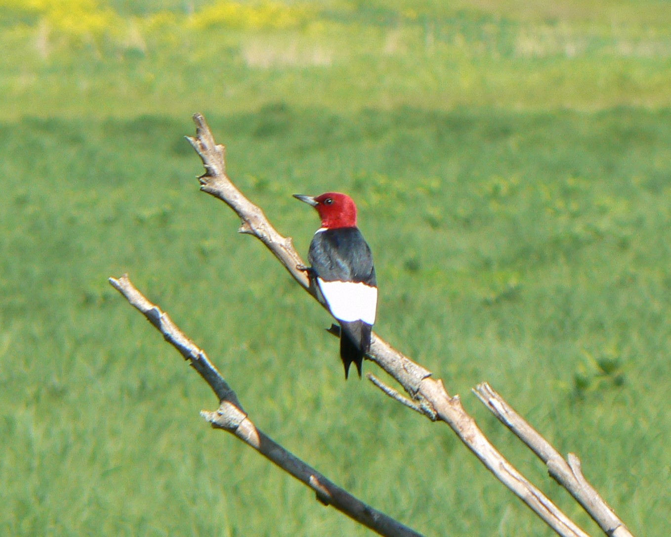 Red Headed Woodpecker image taken in Desoto National Wildlife Refuge